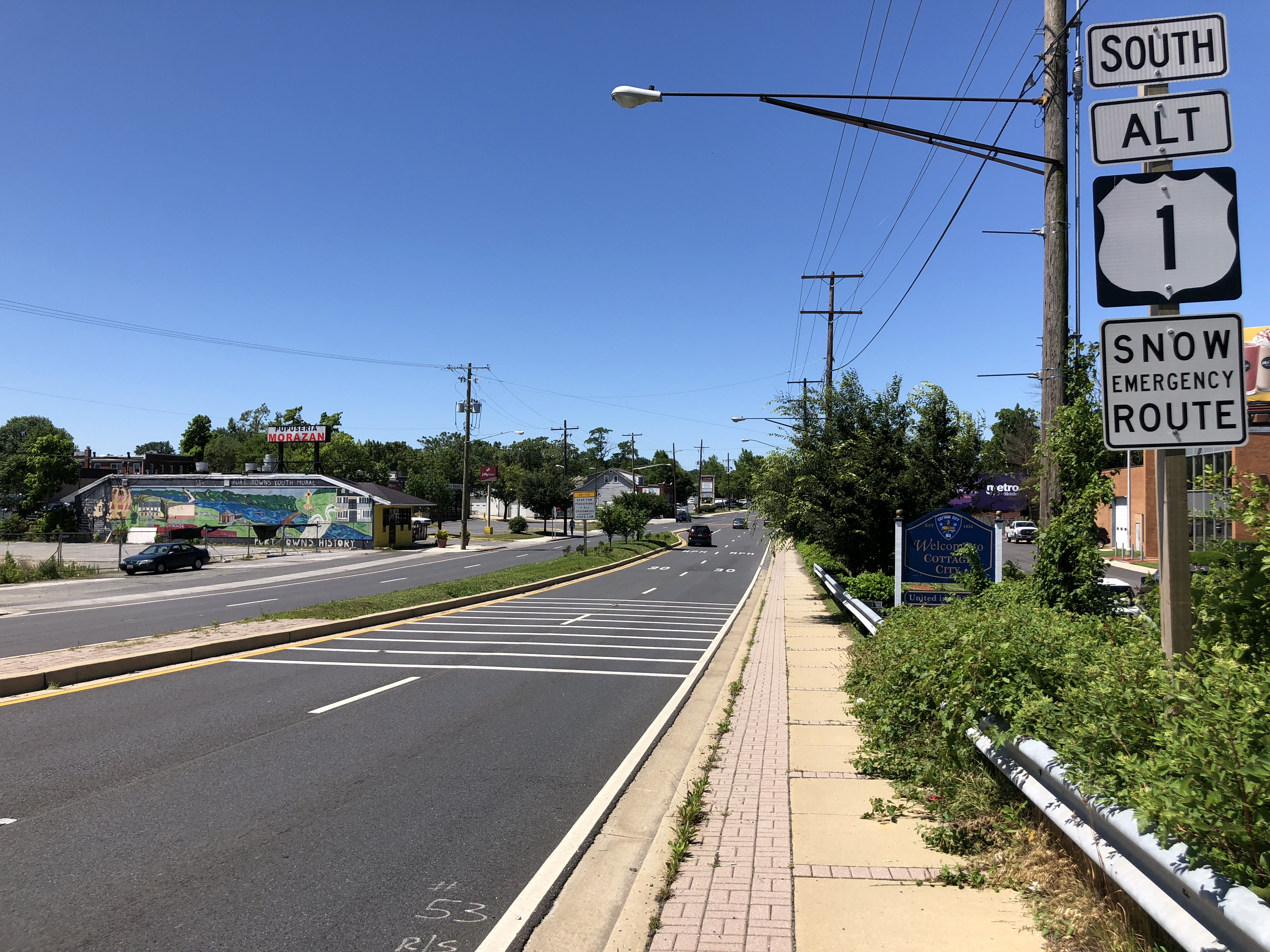 View south along U.S. Route 1 Alternate (Bladensburg Road) just north of 43rd Avenue along the border of Colmar Manor and Cottage City in Prince George's County, Maryland